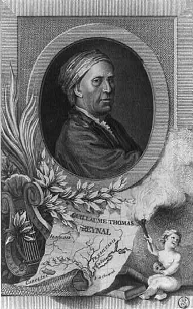 Engraved portrait of French writer Guillaume-Thomas Raynal (1713-1796) with a map of Virginia